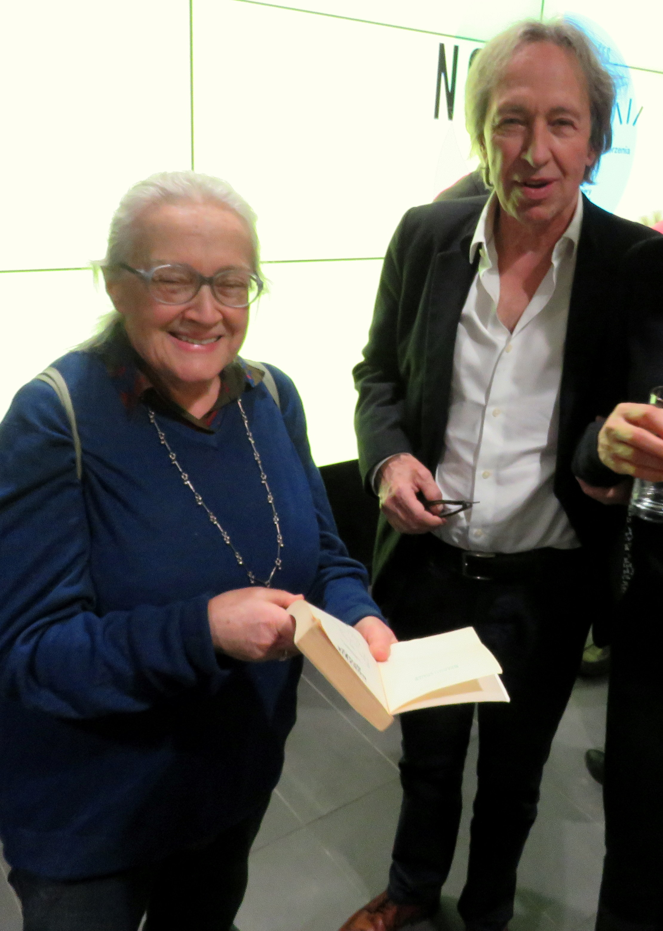 Pascal Bruckner (b. December 15, 1948 in Paris, France), French writer and essayist and Maria Braunstein (b. May 28, 1942 in Warsaw, Poland), Polish translator.